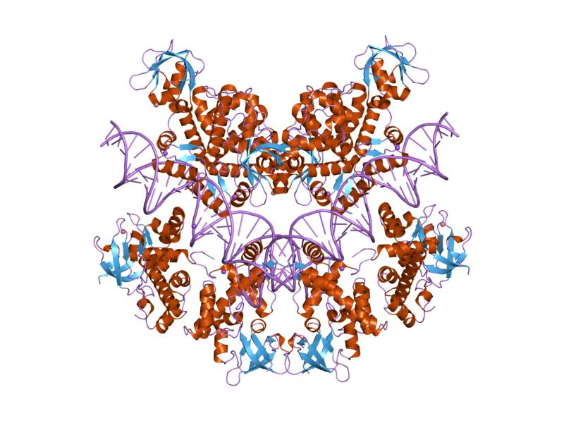 Cartoon representation of the molecular structure of protein registered with 1u8r code.